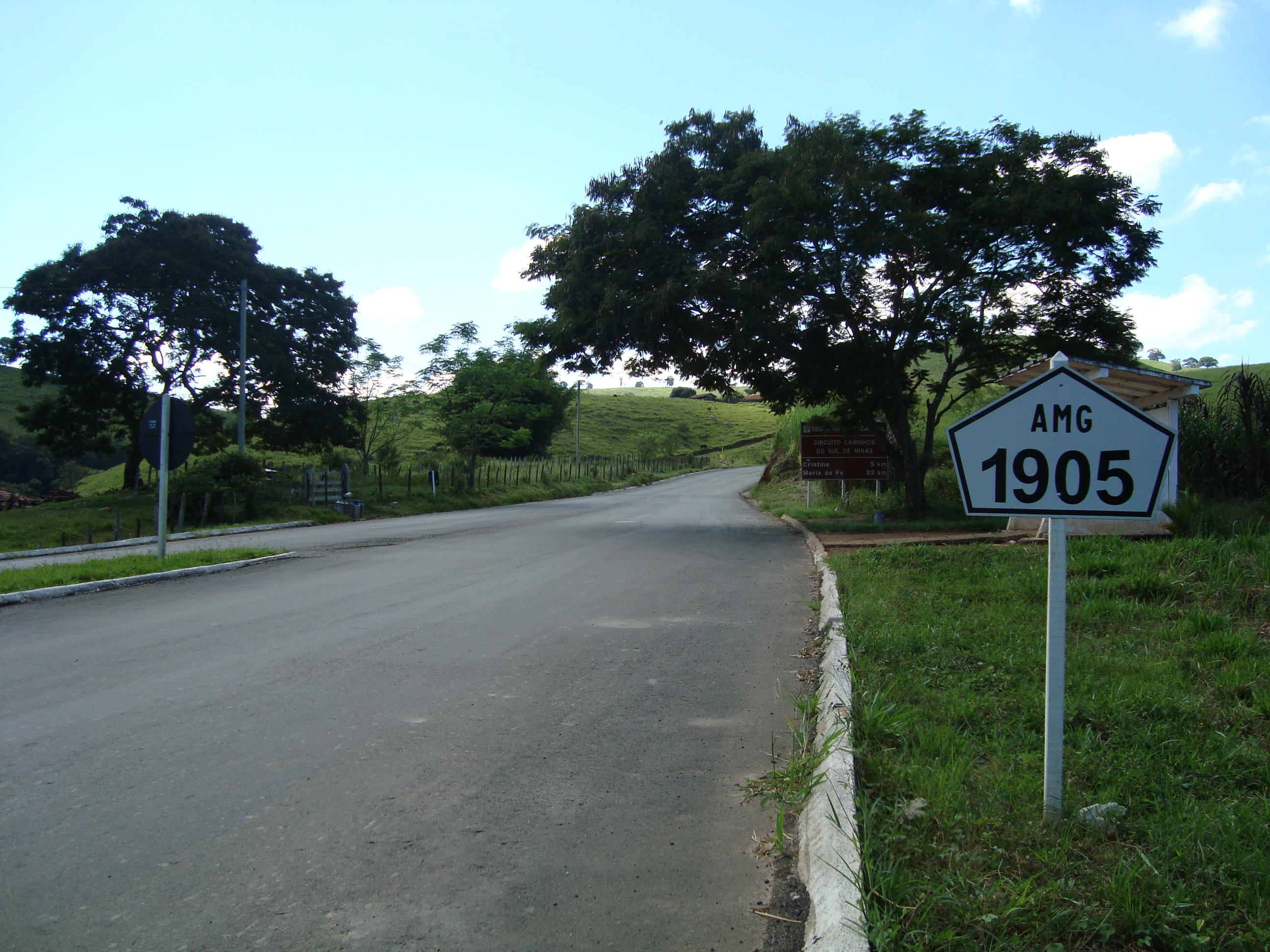 Road AMG1905 in Cristina, Minas Gerais, Brazil